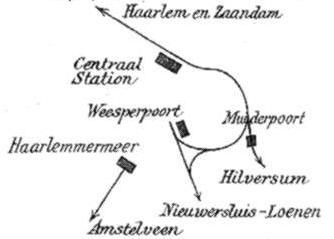 Excerpt from a map, published in 1936 by "Nederlandsche Spoorwegen", showing the historical situation at several Dutch railway stations in Amsterdam.